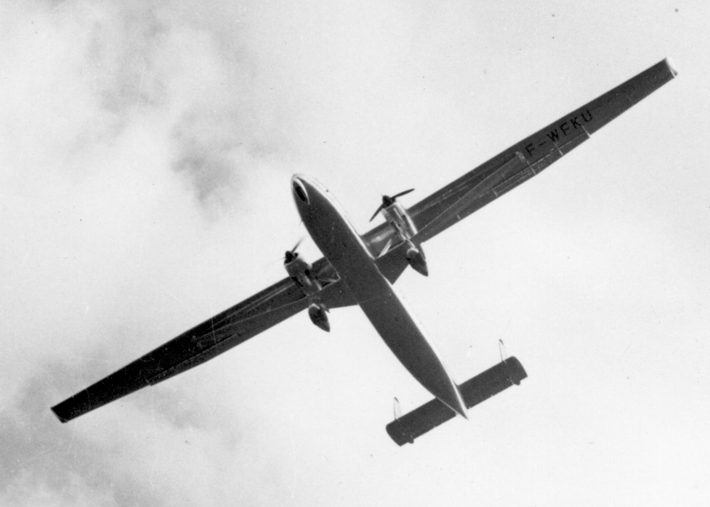 The Prototype Hurel Dubois HD31 F-WFKU demonstrating at Coventry Airport